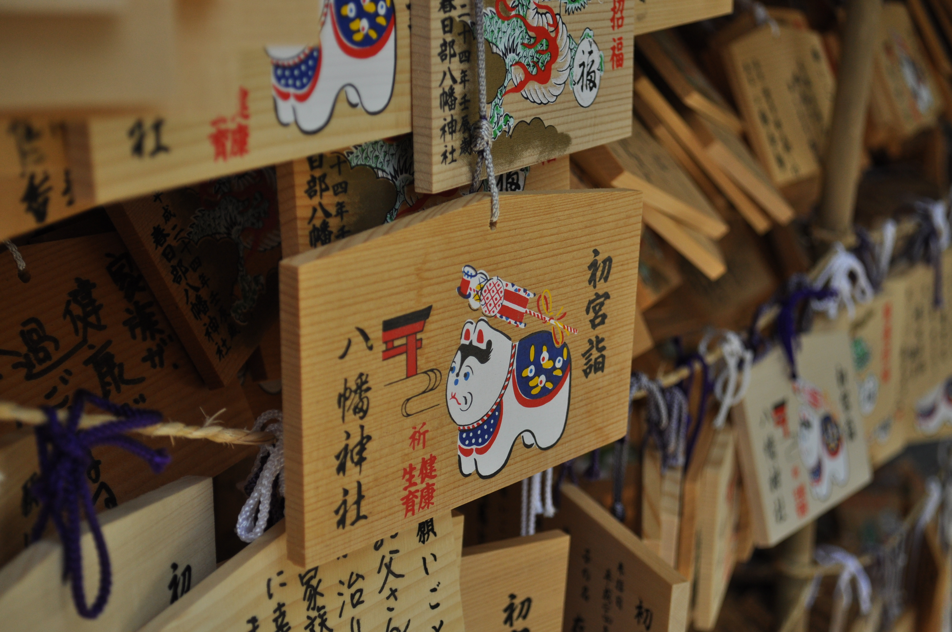 pictorial offering, especially healthy growth